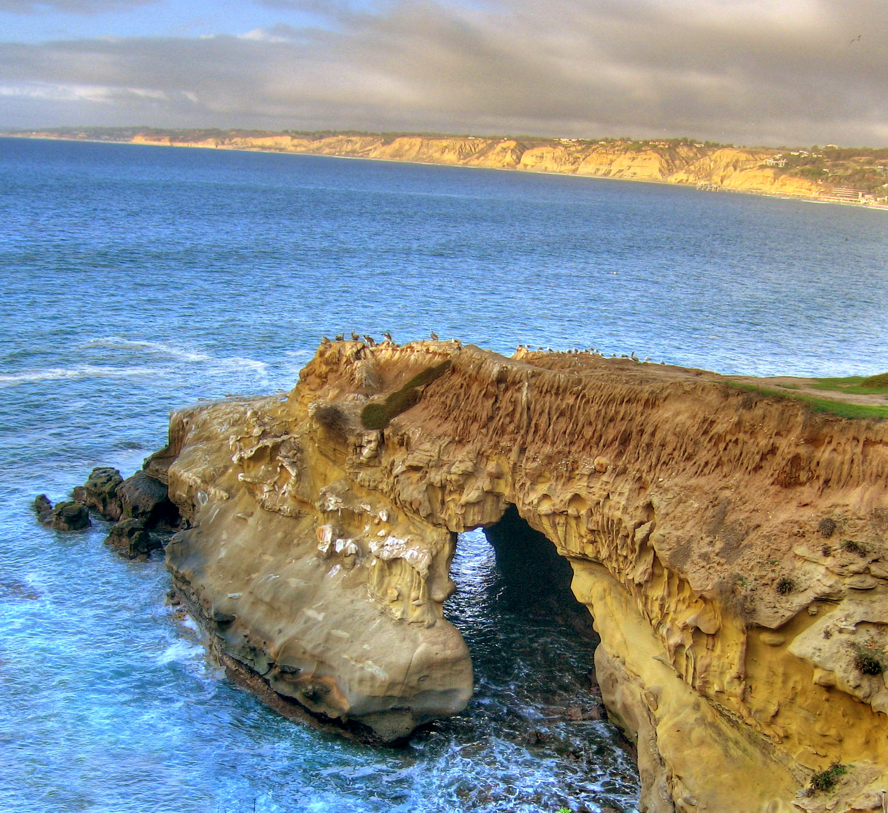 A cave in La Jolla, San Diego, California